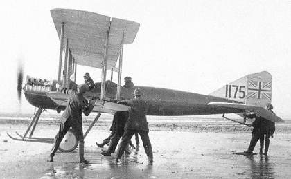 Photograph of the White & Thompson Bognor Bloater.